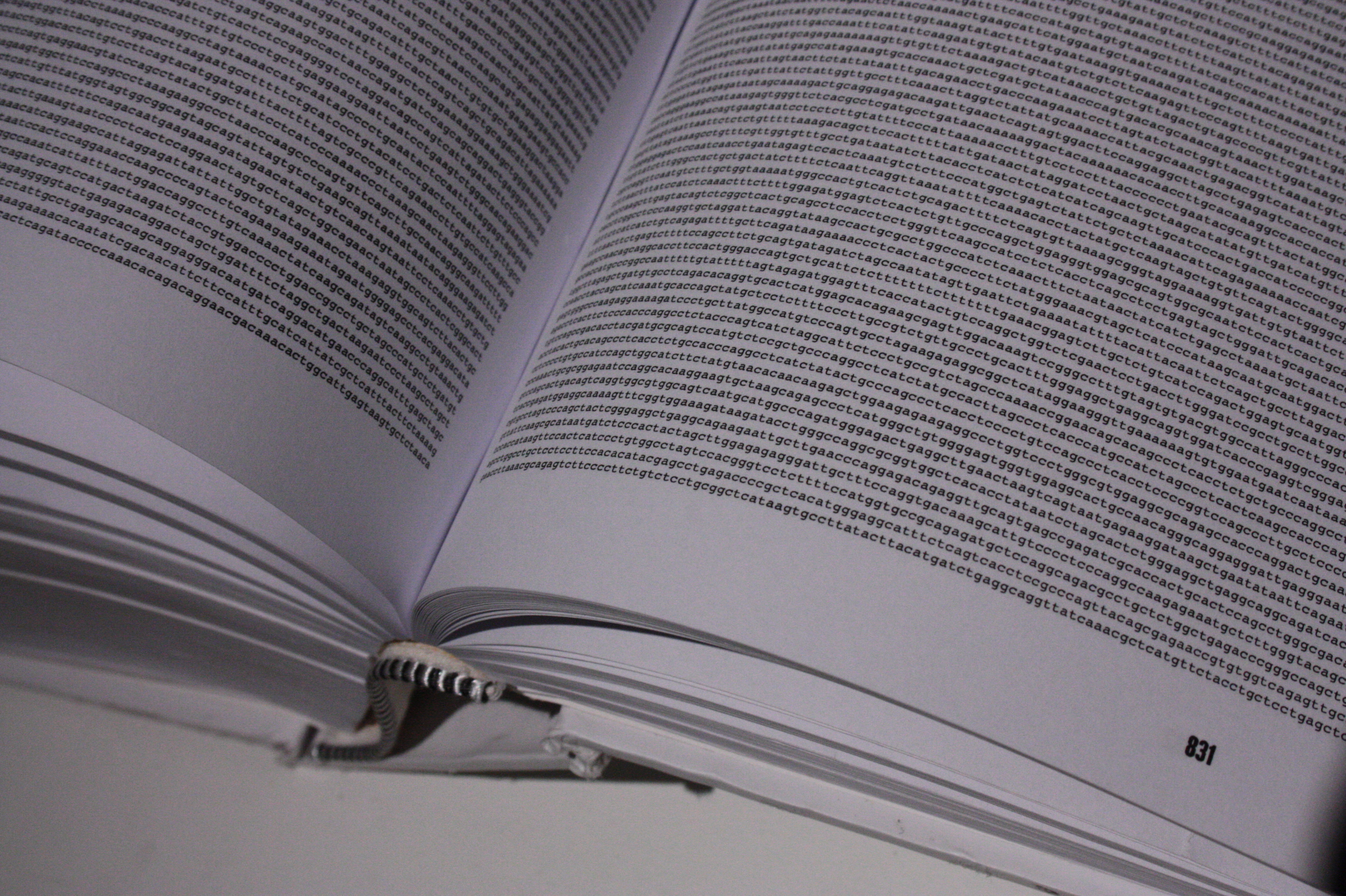 The Genome sequence when printed fills a huge book of close print